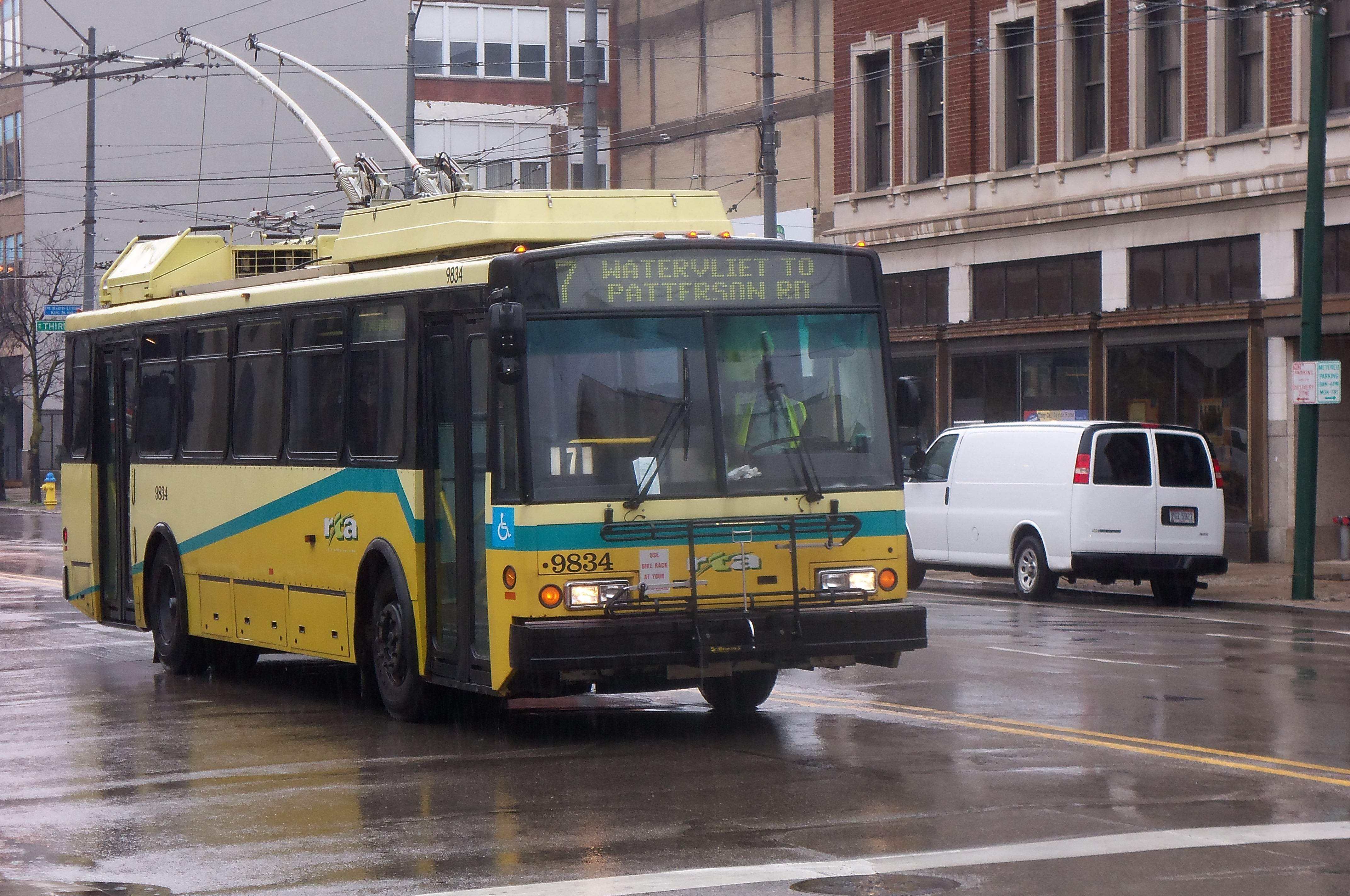 Dayton trolleybus 9834, a 1998 ETI 14TrE2, southbound on Jefferson Street between Third Street and Wright Stop Plaza in downtown, southbound on route 7. No. 9834 was originally equipped with rollsign-type destination signs (as were all of Dayton's ETI trolleybuses), but its rollsigns were replaced in 2011 by flip-dot-type signs taken from a retired diesel bus.